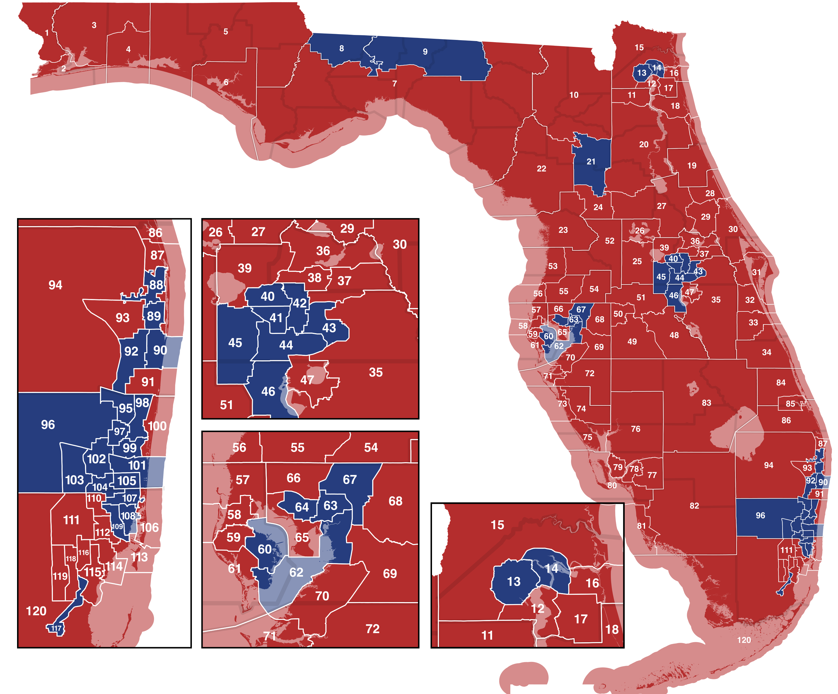 Current district map of the Florida House of Representatives. Democratic Republican Vacant